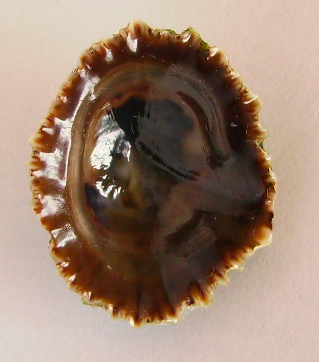 Siphonaria zelandica (inside) from Whatipu, New Zealand. This work has been released into the public domain by its author, Graham Bould. This applies worldwide. In some countries this may not be legally possible; if so: Graham Bould grants anyone the right to use this work for any purpose, without any conditions, unless such conditions are required by law.